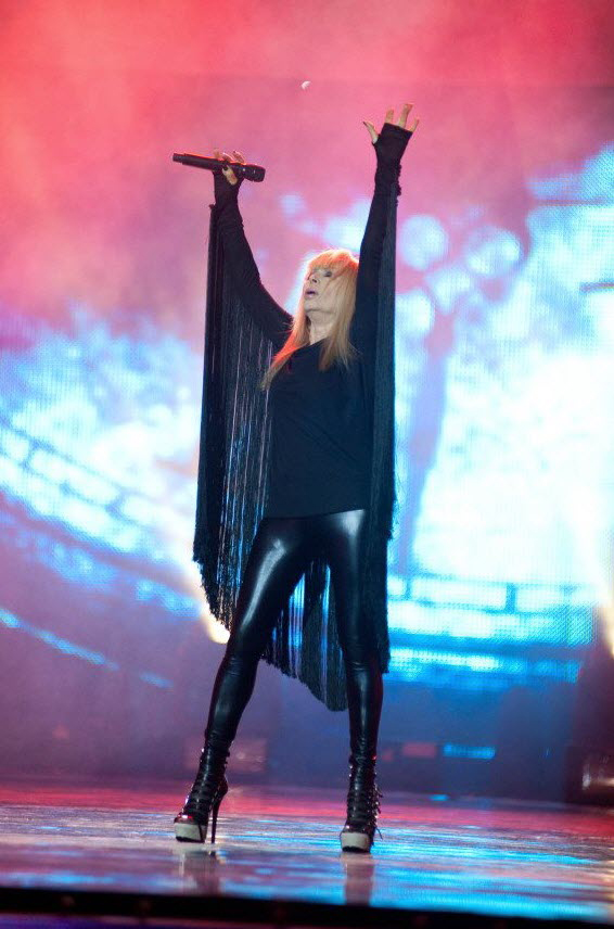 Bulgarian singer Lili Ivanova performing at the BG Radio Music Awards.